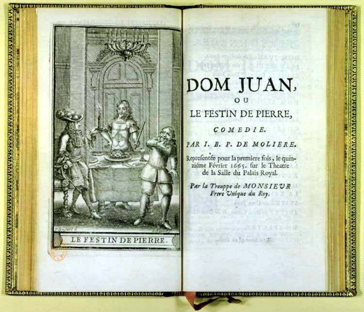 Molière (b. 1622-d. 1673), Les Oeuvres posthumes (Posthumous Works), vol. 7, Dom Juan, ou Le Festin de Pierre (Don Juan or the Feast with the Statue), Paris, 1682, Reserve of Rare and Precious Books, Rés. Yf. 3167 ([1])